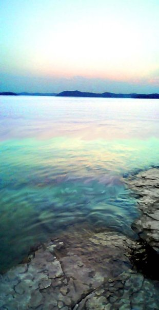 Veiw of Dale Hollow lake from Geiger Island